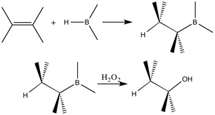 A general hydroboration-oxidation reaction